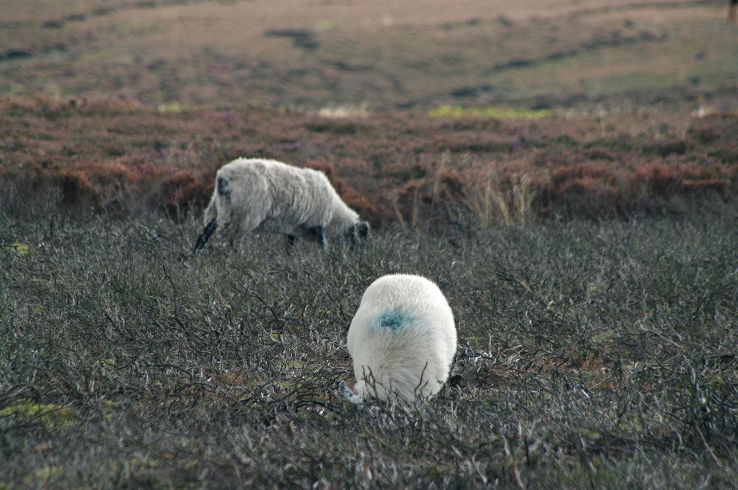 Sheep grazing on burned heather, Levisham Moor, North York Moors